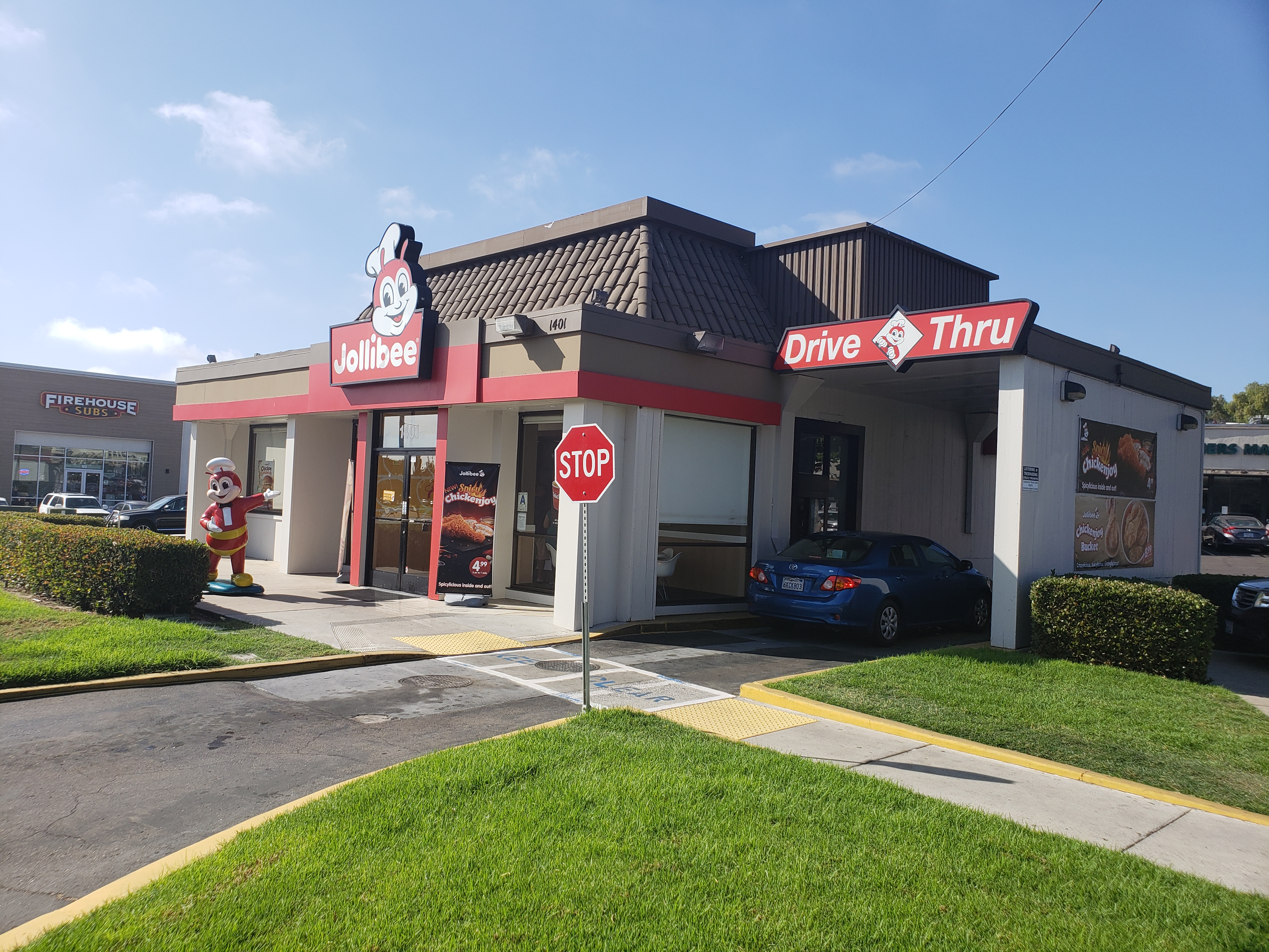 The south facing exterior of the Jollibee location in National City